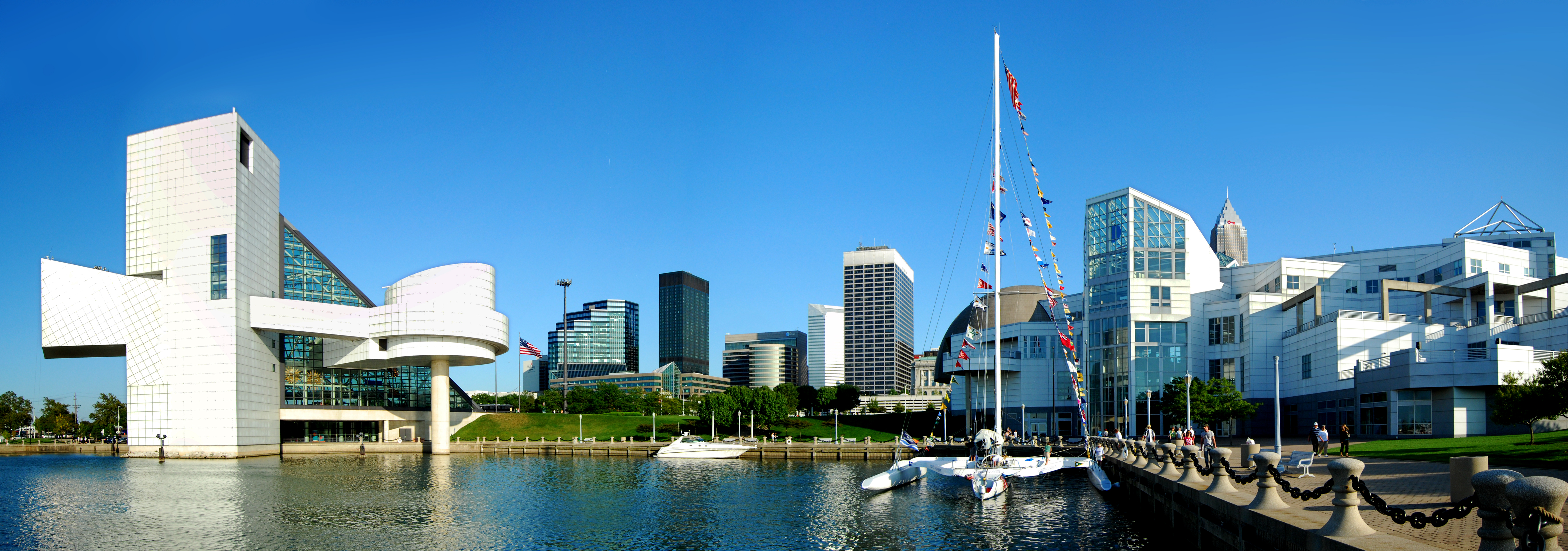 North Coast Harbor in Cleveland, Ohio